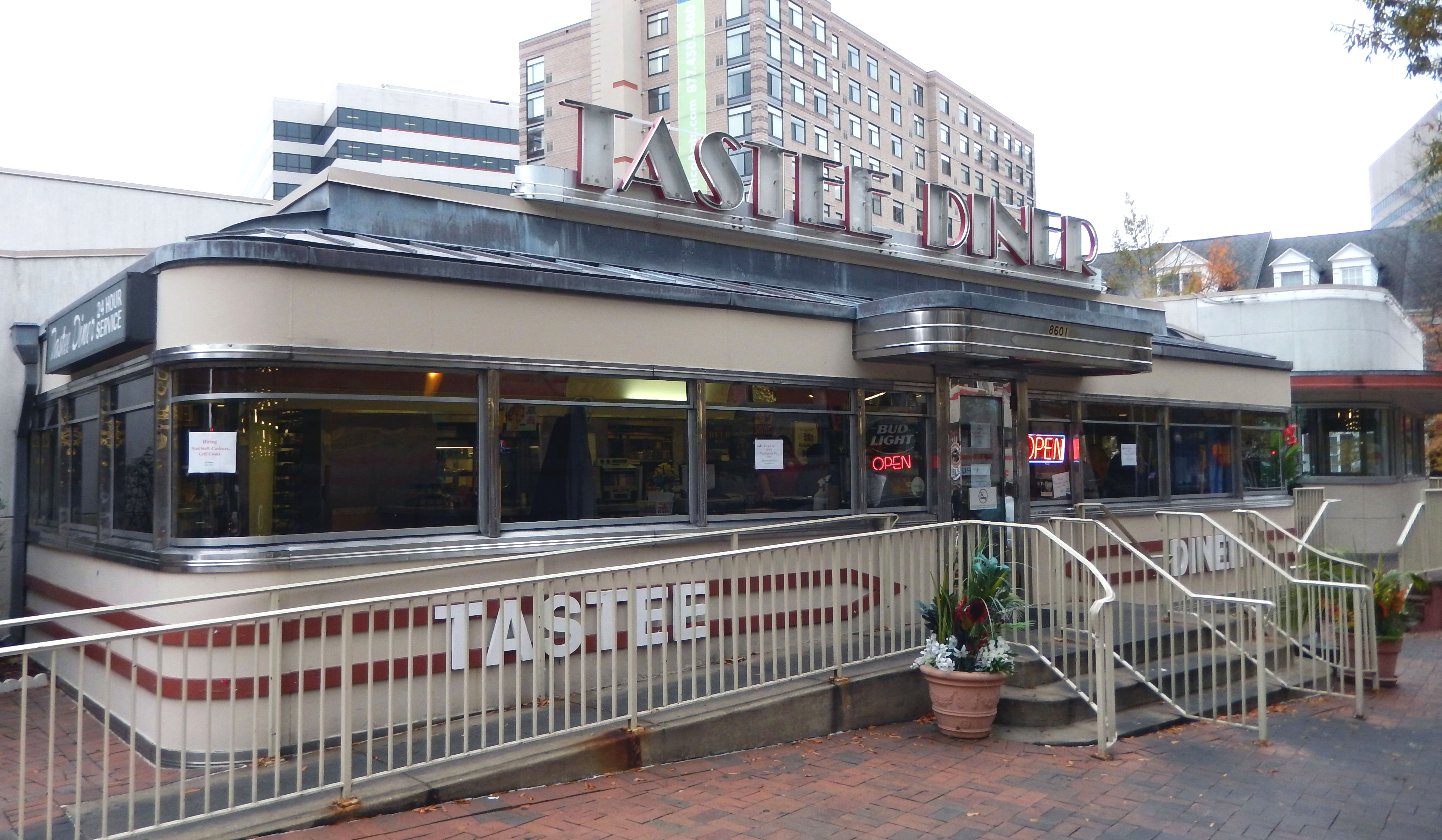 Front exterior photo of the Tastee Diner in Silver Spring, Maryland